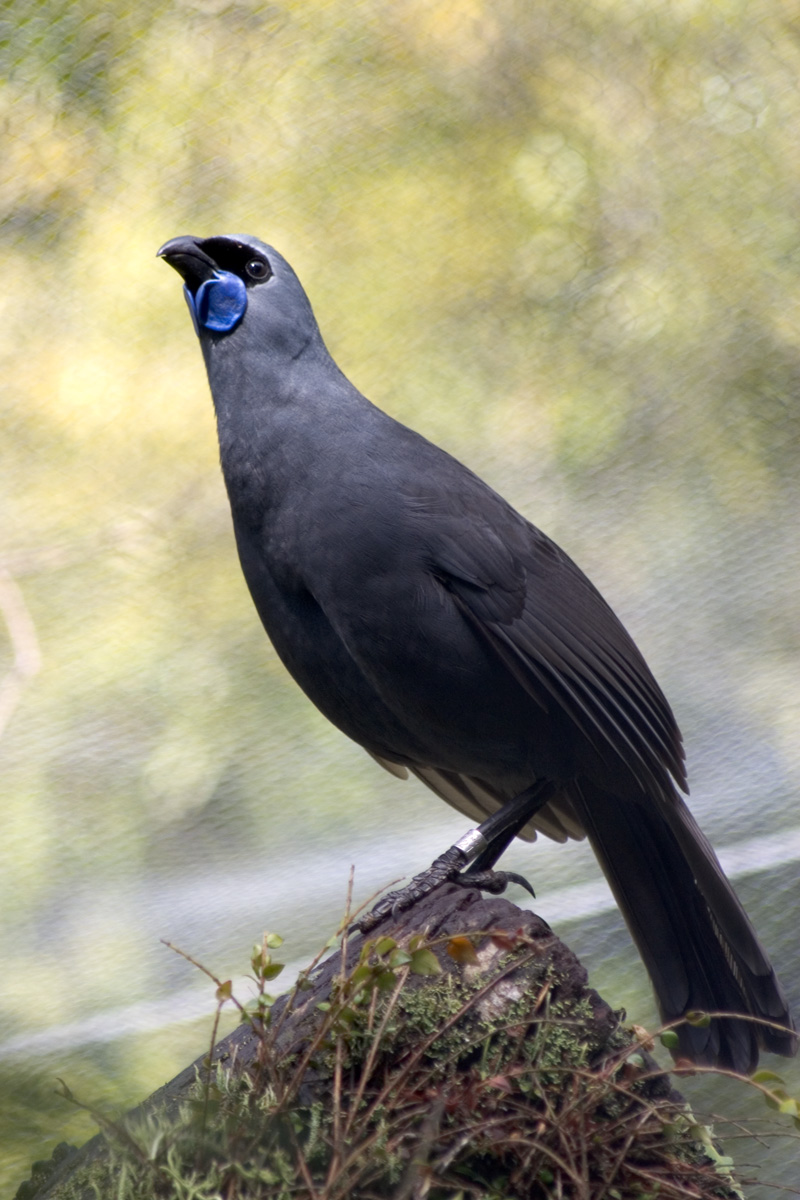 A North Island Kōkako Callaeas wilsoni, captive, at Mt Bruce Wildlife Centre, New Zealand.